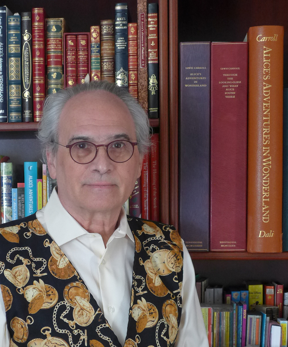 Photo of Mark Burstein in his library.